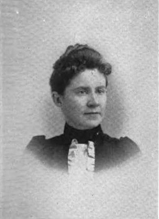 Mary Anne Greene